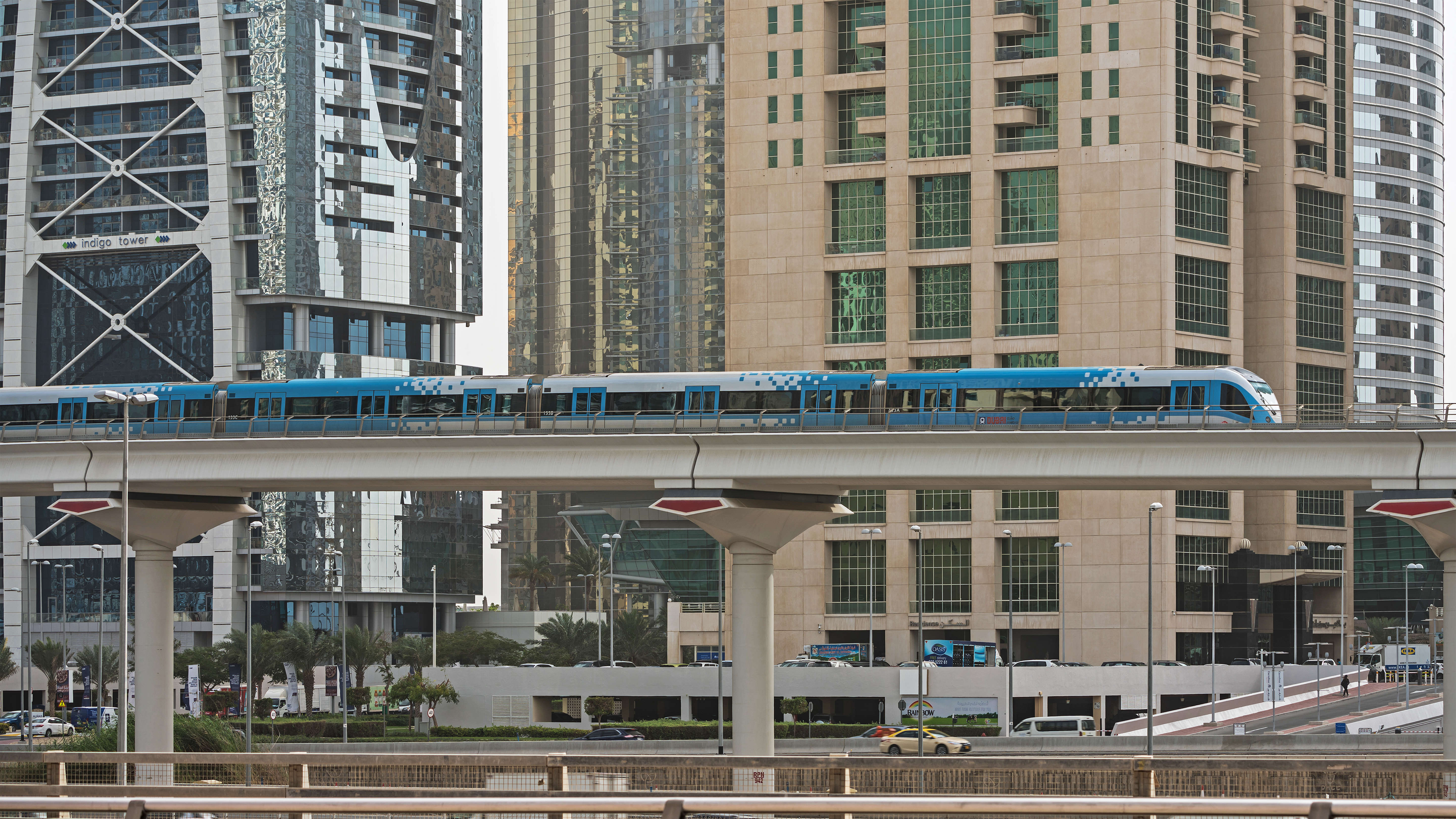 Metro at Marina area in Dubai / United Arab Emirates